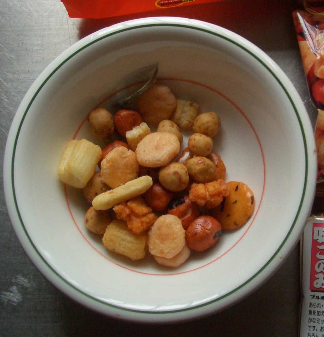 Ajigonomi pack contents